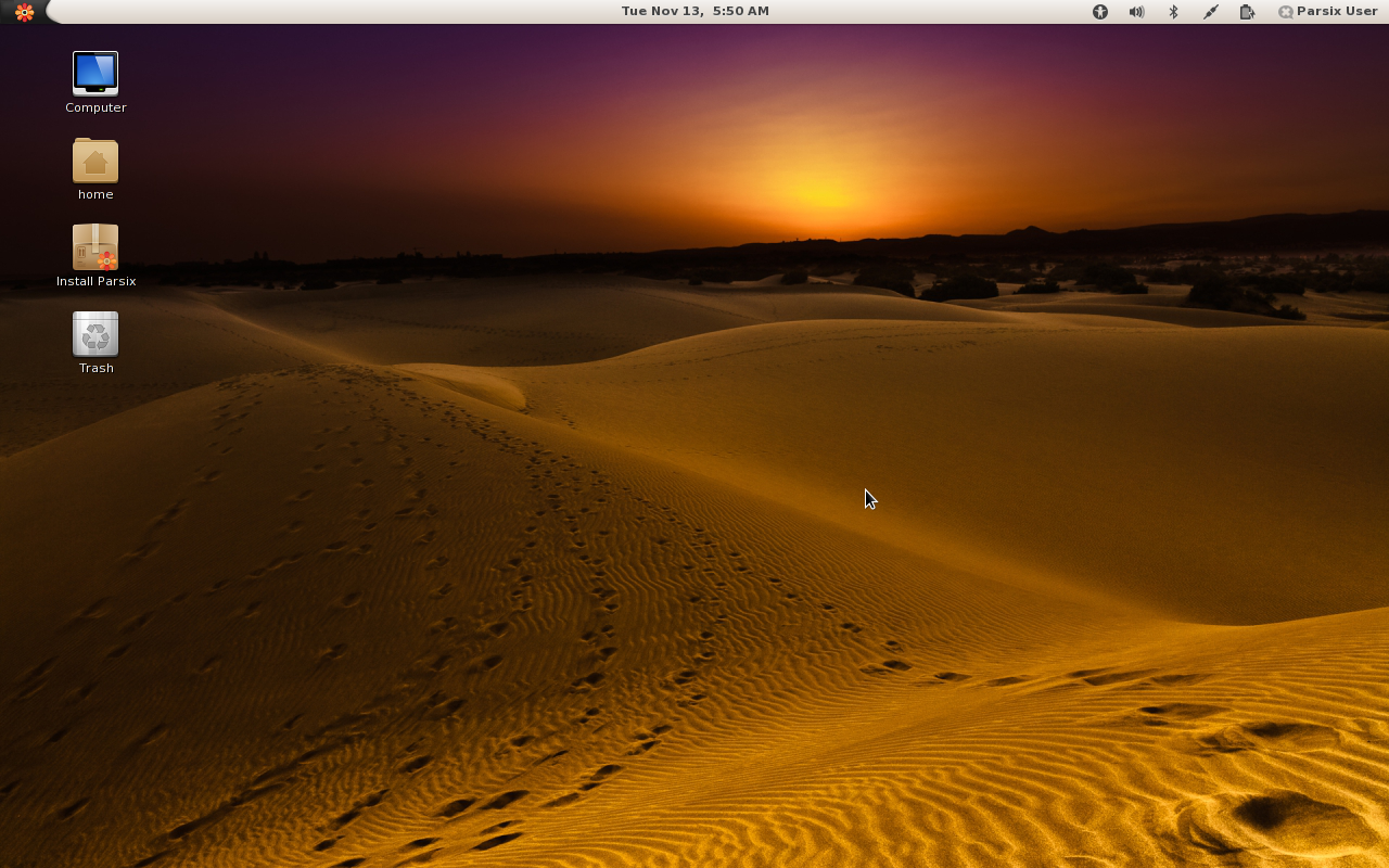 Parsix GNU/Linux 4.0 Desktop